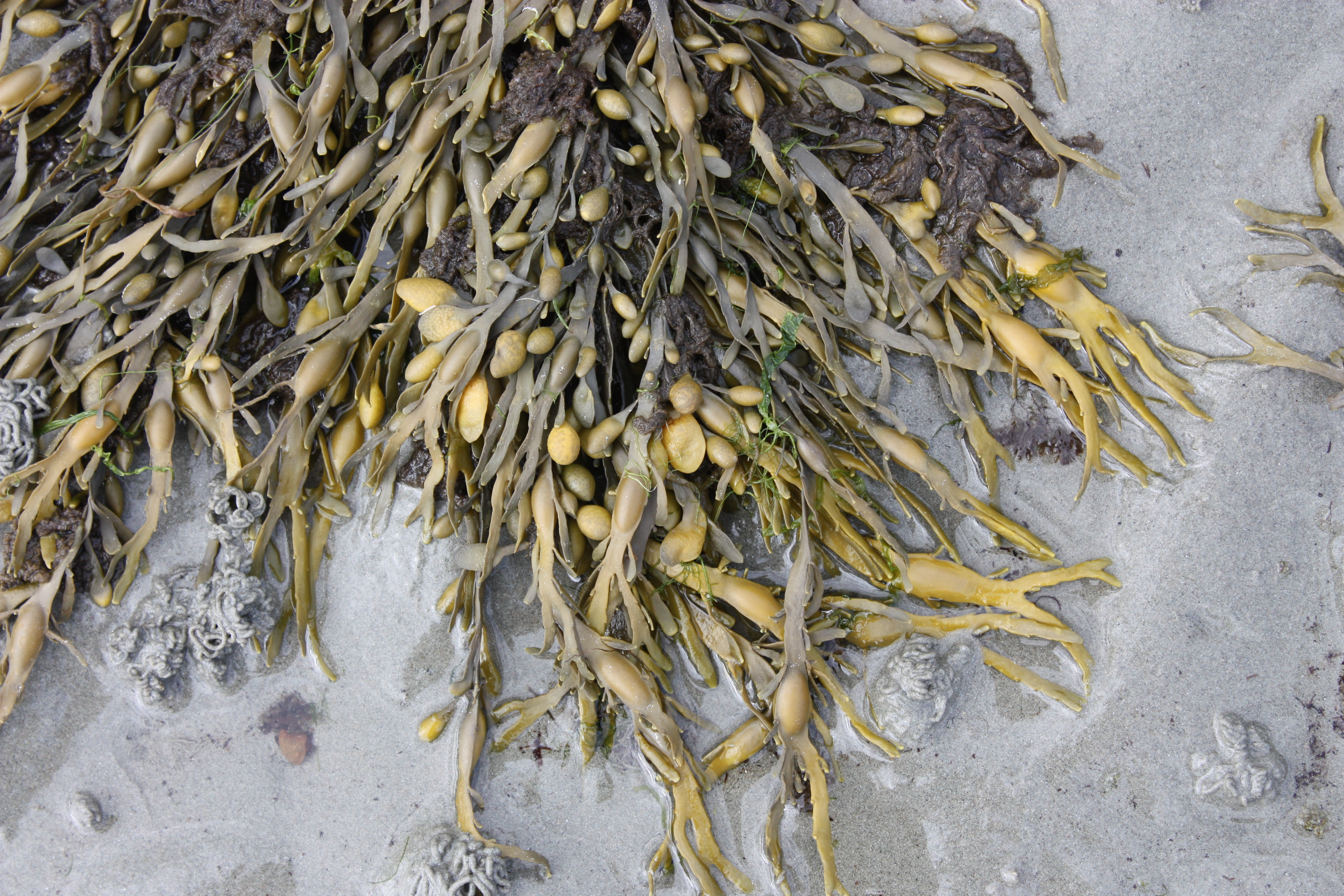 Seaweed Ascophyllum nodosum, Kilclief Beach, Shore Road, Kilclief, County Down, Northern Ireland, August 2011